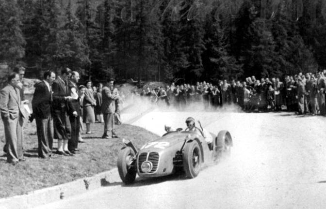 Giovanni Bracco wins the 304 km long 1948 Coppa Dolomiti in Maserati A6GCS on a beautiful Sunday 11 July 1948. [1] There were only 10–15 of these made,[2] perhaps this was s/n 2016?[3]